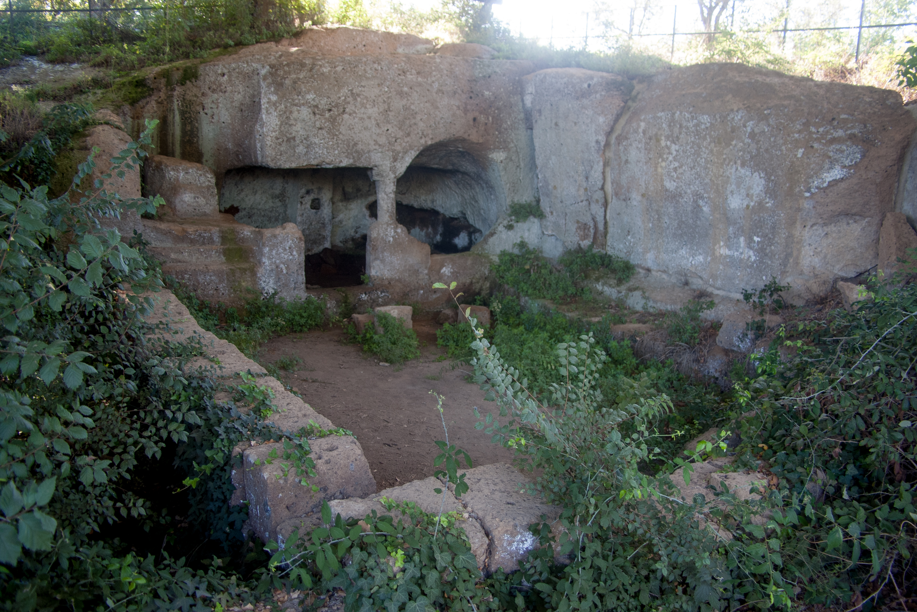 The monumental building of Luni sul Mignone, Blera, Italy. Excavated by the Swedish institute at Rome.